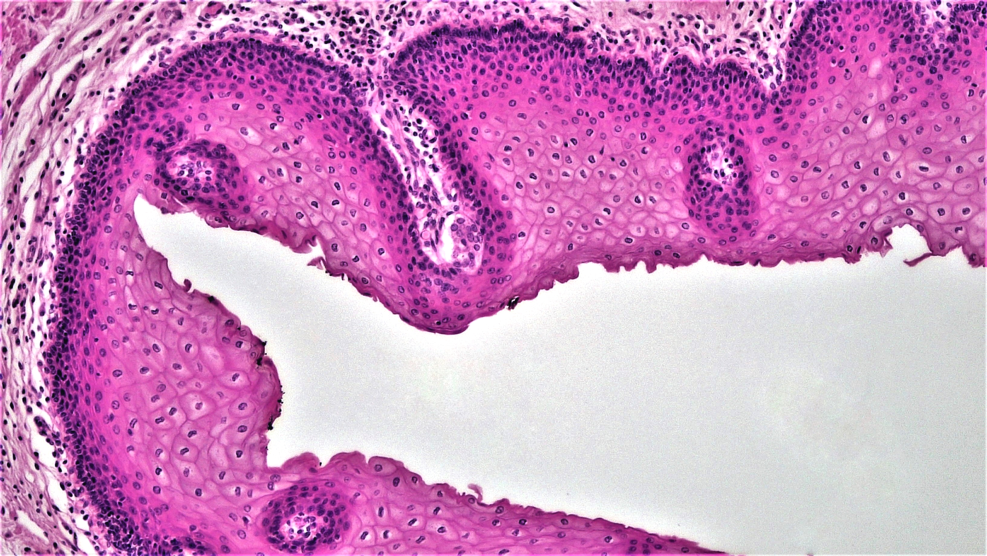 cross section: stratified squamous epithelium magnification: 100x